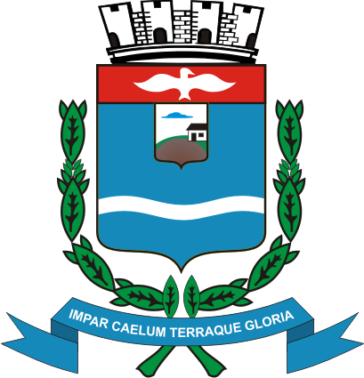 Brasão de Divinolândia